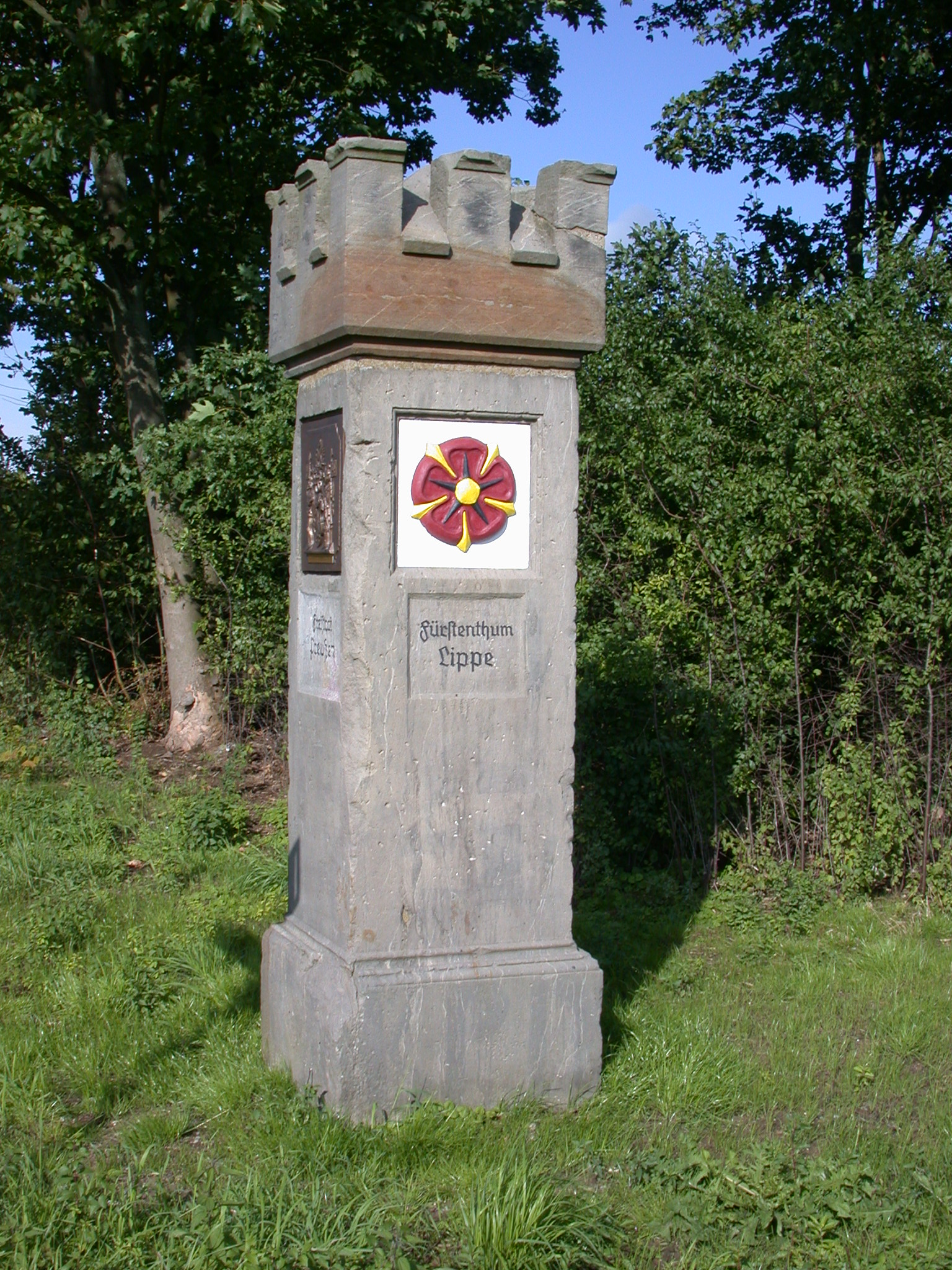 Germany - North Rhine-Westphalia - district Lippe - Bad Salzuflen - Wüsten - Pehlen: boundary stone between "Principality of Lippe" and "Free State of Prussia"